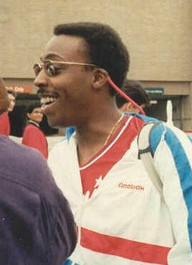 American actor Arsenio Hall at the 41st Annual Emmy Awards